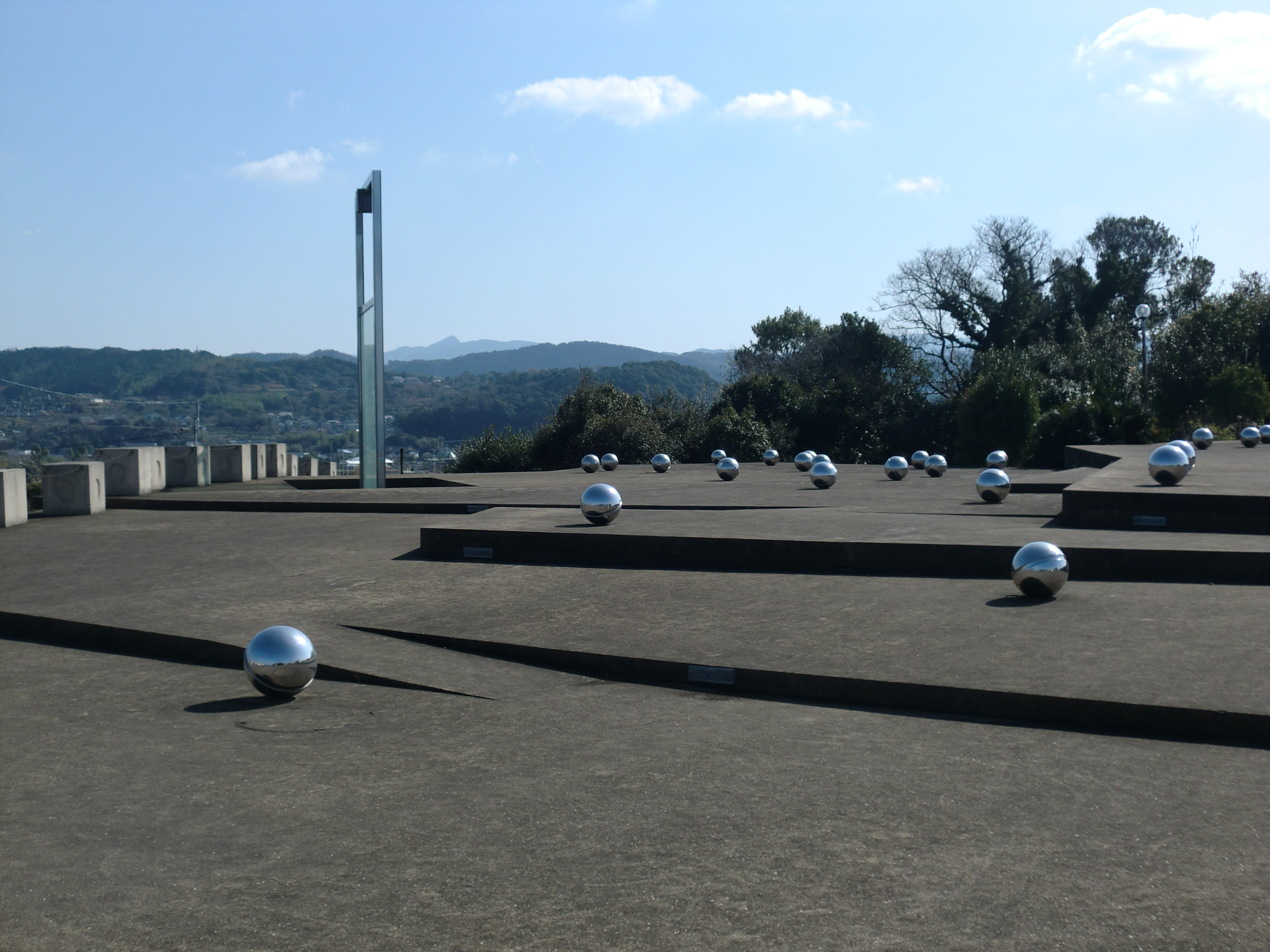 Minamata memorial